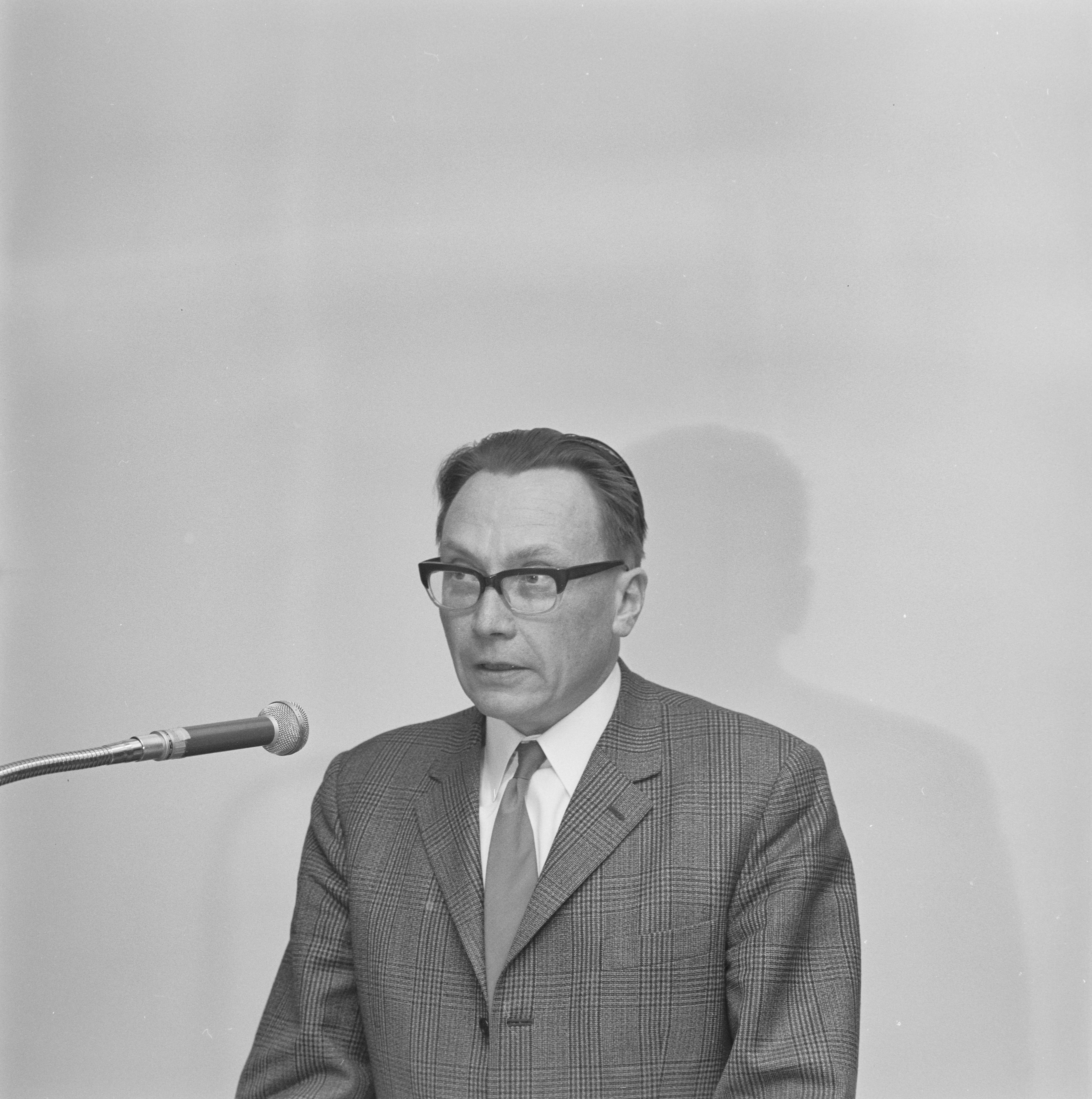 Photograph of the Finnish forester and professor Kullervo Kuusela (1924–2003).